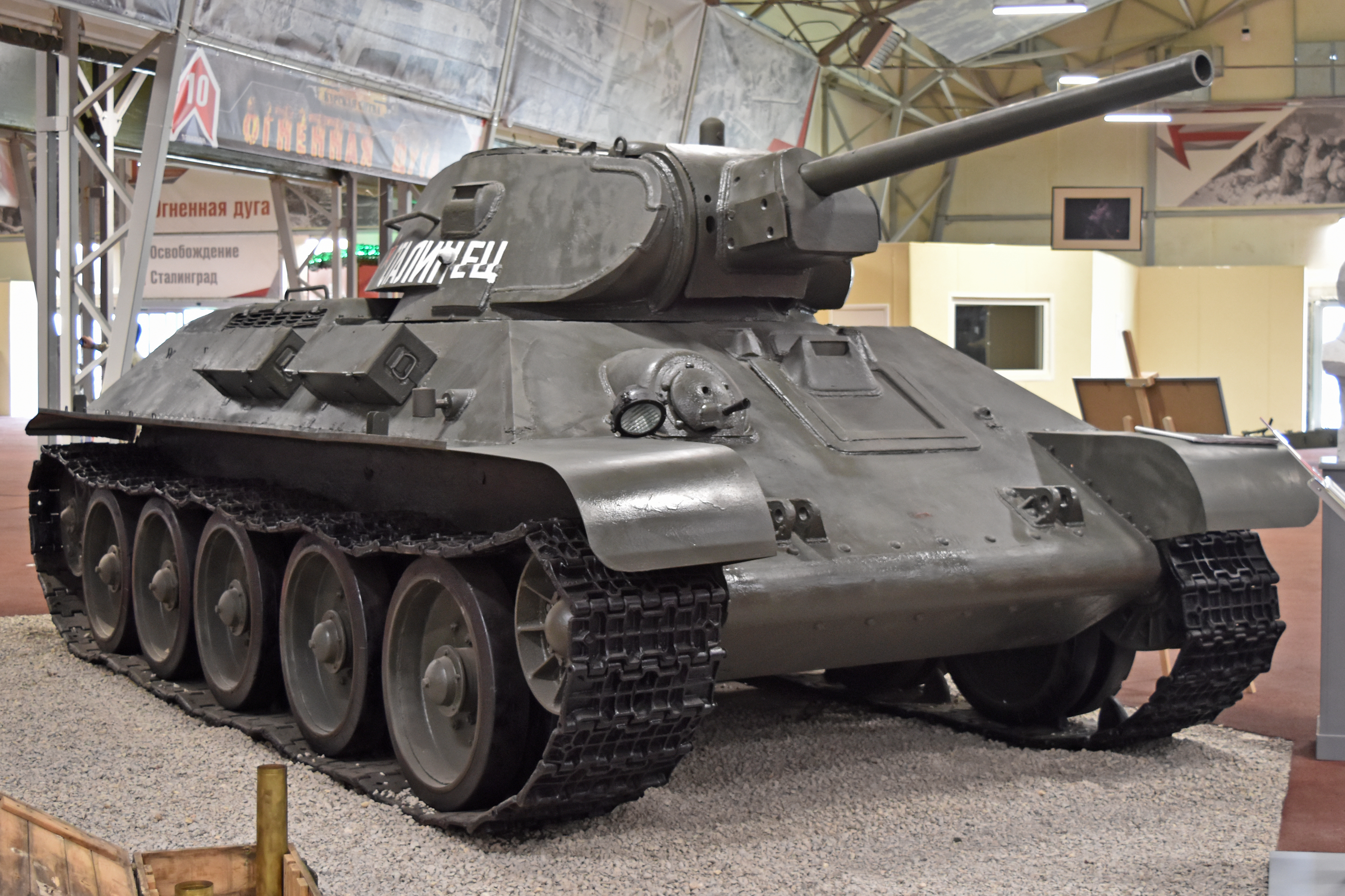 Soviet WW2 era Medium Tank Also known as the T-34/76B, the 1941 model introduced the long barrelled F-34 gun, but was otherwise similar to the previous 1940 model. It still had a cramped interior and reliability issues. It was, however, still better than any opposing armour at the time and much more suited to dealing with the harsh conditions it fought in. On display in Hall 9 of the Patriot Museum Complex. Park Patriot, Kubinka, Moscow Oblast, Russia. 25th August 2017